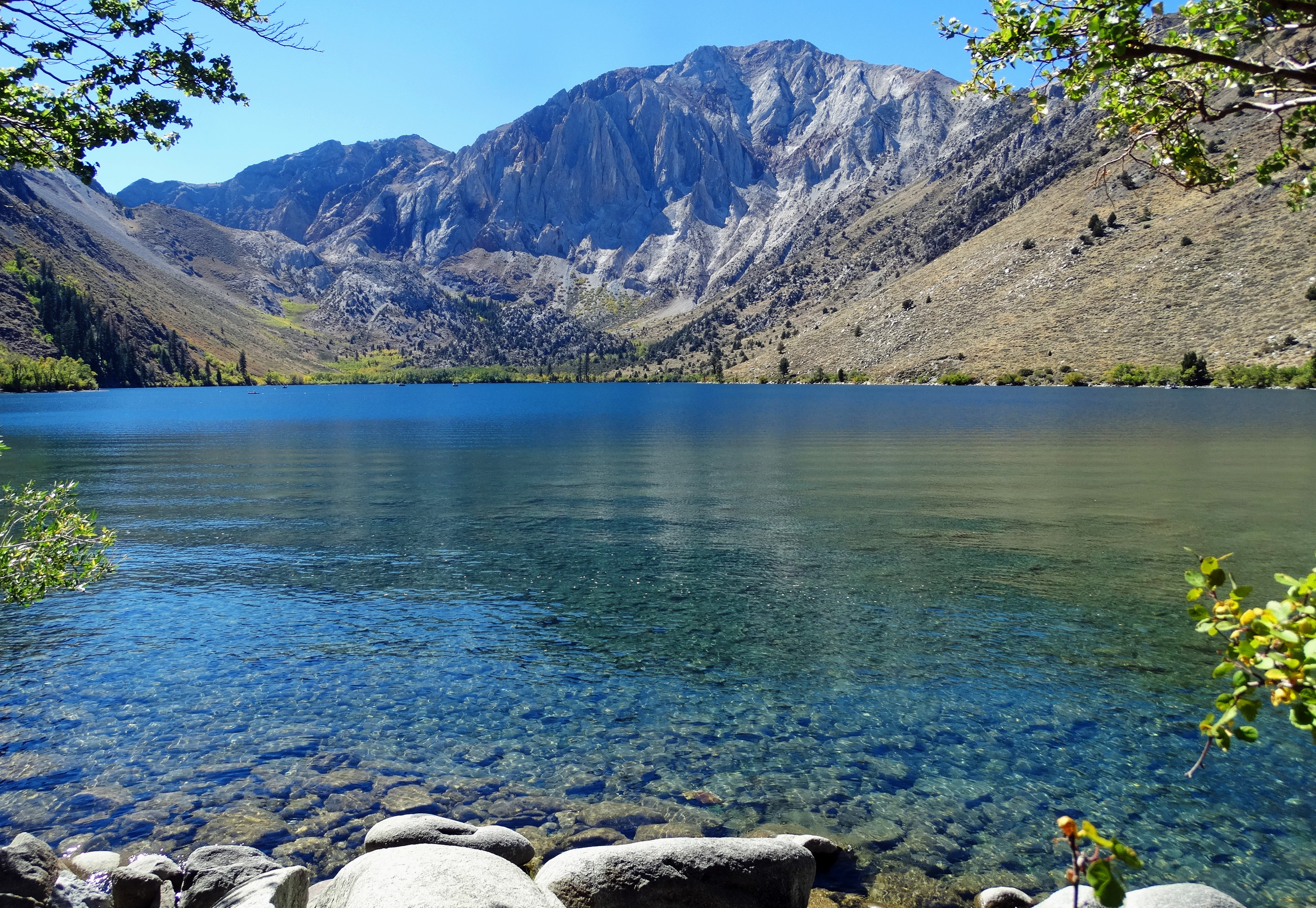 (1 in a multiple picture album) Besides having one of the prettiest settings for any lake, Convict Lake carries with it the history of the old west. Previously called Diablo Lake, the name was changed when a posse followed some escaped convicts from Carson City, NV here and there was a shootout. One of the lawman was killed and the peak in the distance is named for him Mt. Morrison. He was a Wells Fargo Agent.